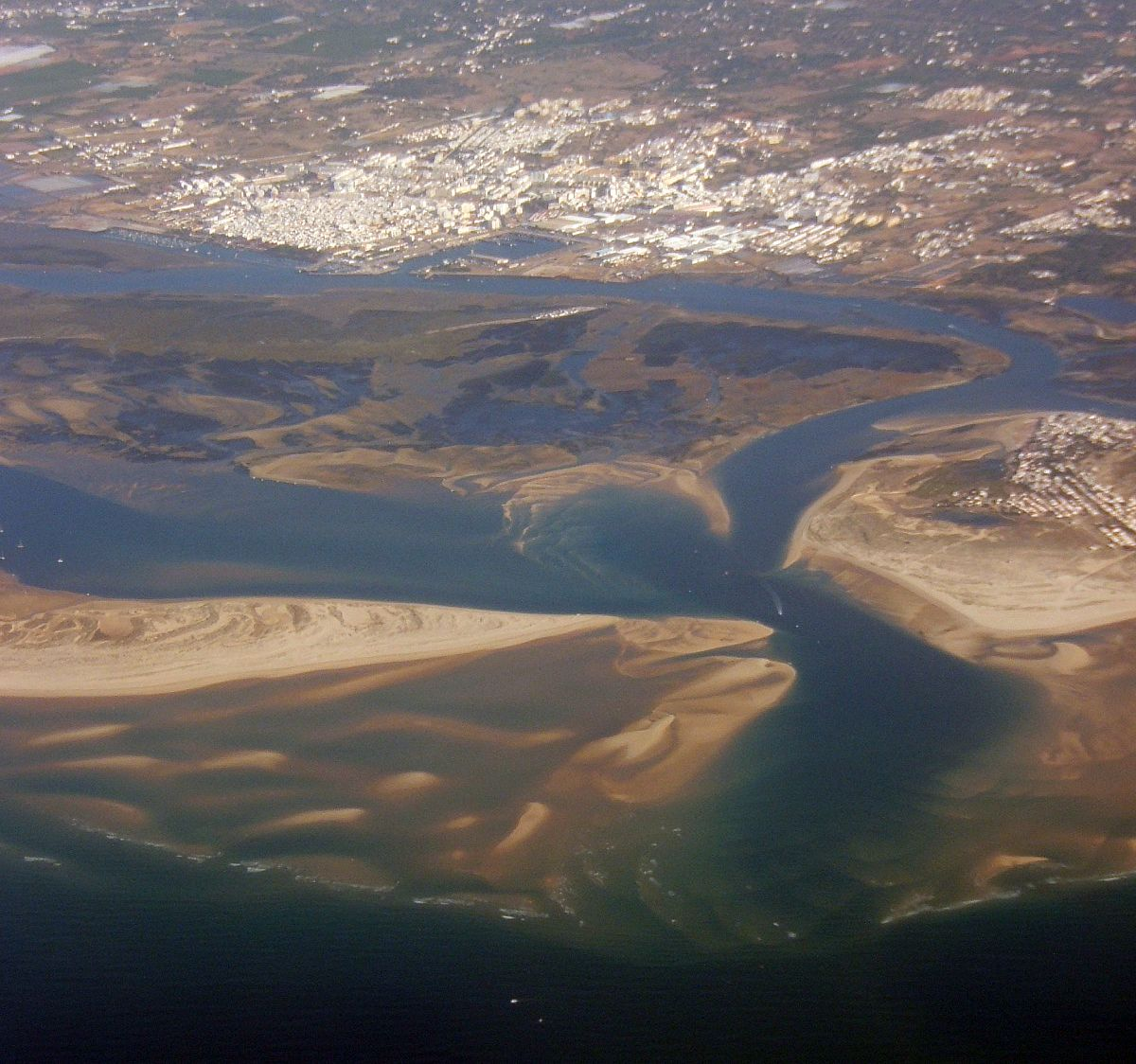 aerial view of Olhão, Algarve, Portugal Parts of the islands Ilha da Armona (right, inhabited) and Ilha da Culatra (left) can be seen.